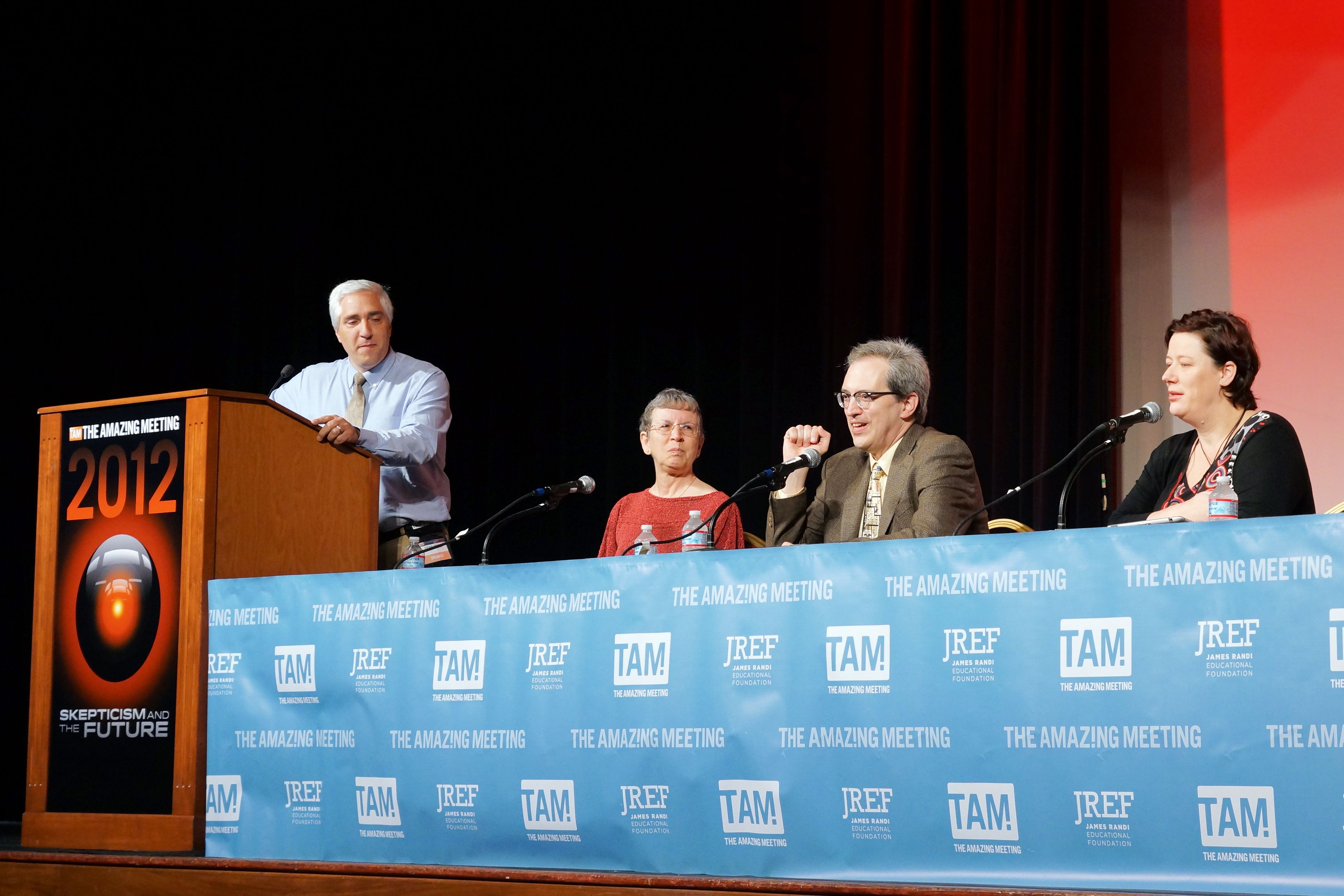 Dr. David Gorski participating in a panel on The Truth About Alternative Medicine (along with Drs. Steven Novella, Harriet Hall, and Rachael Dunlop) at The Amaz!ng Meeting (TAM 2012) in Las Vegas, Nevada on July 15, 2012